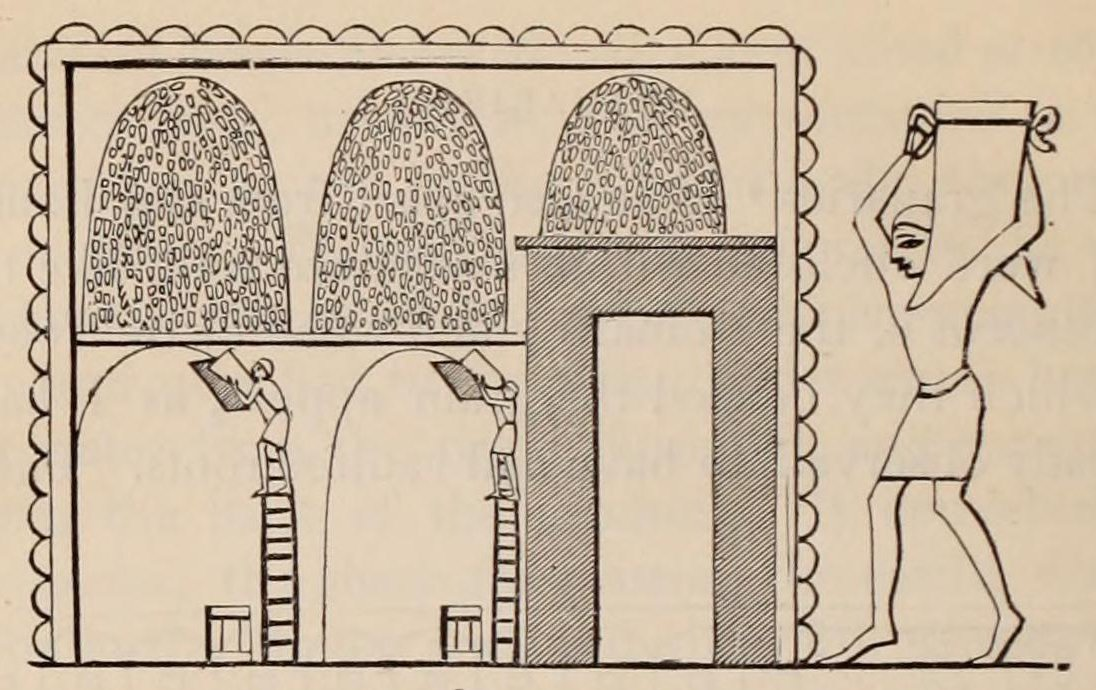 A woodcut image showing the beehive-shaped ancient Egyptian granaries at Thebes. The original caption was: "Granary, showing how the grain was put in, and that the doors [at the bottom] were intended for taking it out."